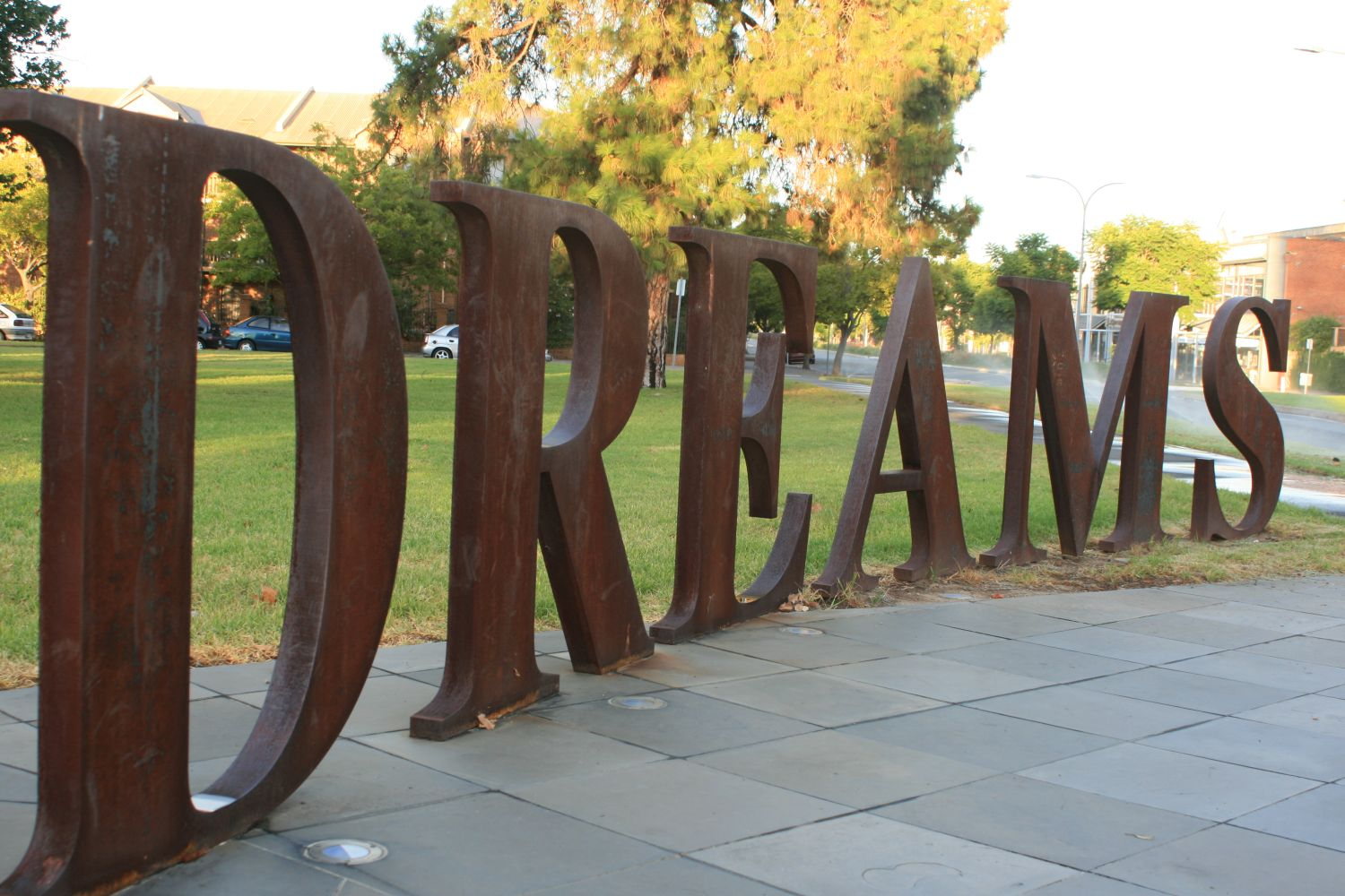 One of four large words "THE FOREST OF DREAMS" in Hurtle Square, Adelaide. The Forest of Dreams 2003 is one of many public sculptures by well known Adelaide artist Anton Hart. It was commissioned by Adelaide City Council. Hart has a reputation for bold and challenging works that utilise text, simplicity of design and robust materials. In this work he has used 80 mm thick laser cut steel plate letters, polished granite forms which double as seating, lighting and re-configured paving to complete the installation.